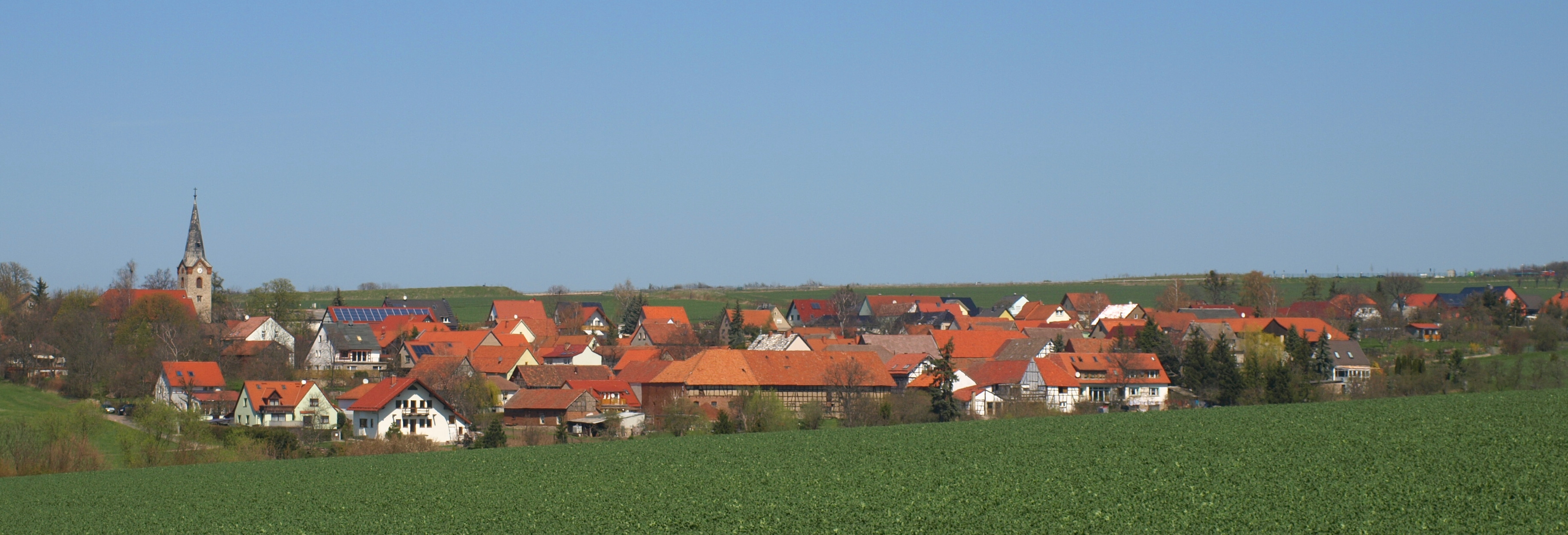 View on Bechstedt-Wagd, village of the Kirchheim municipality, Ilm-Kreis, Thuringia, Germany